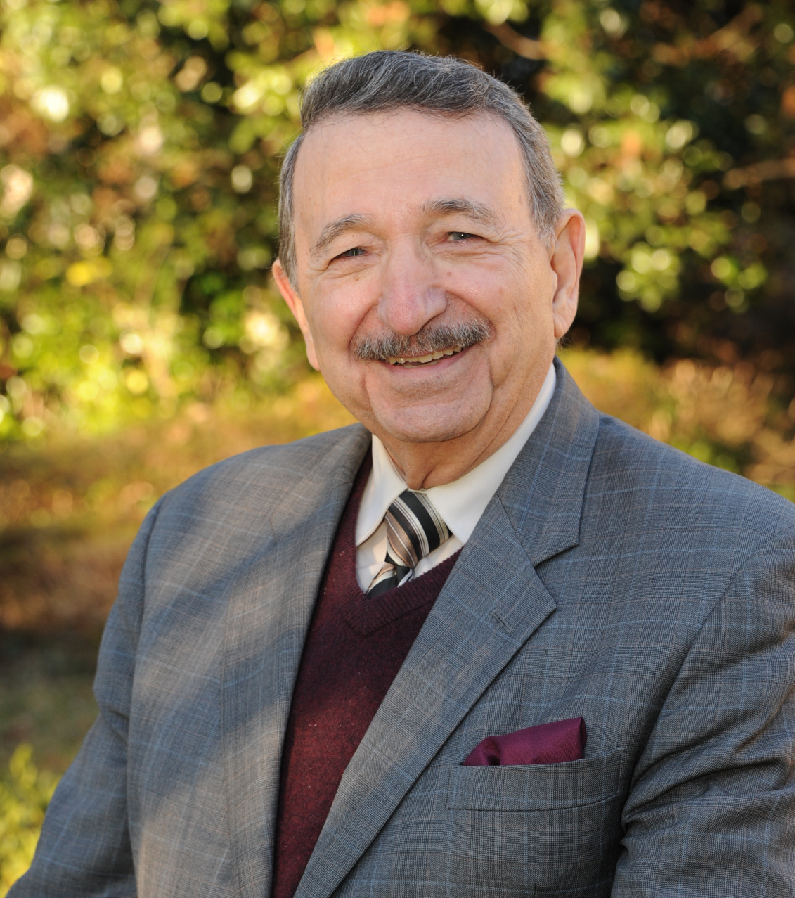 Cover Photo C&EN Magazine March 14, 2016